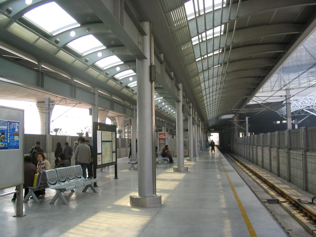 上海南站-3號線月台 Line 3 Platform of Shanghai South Railway Station